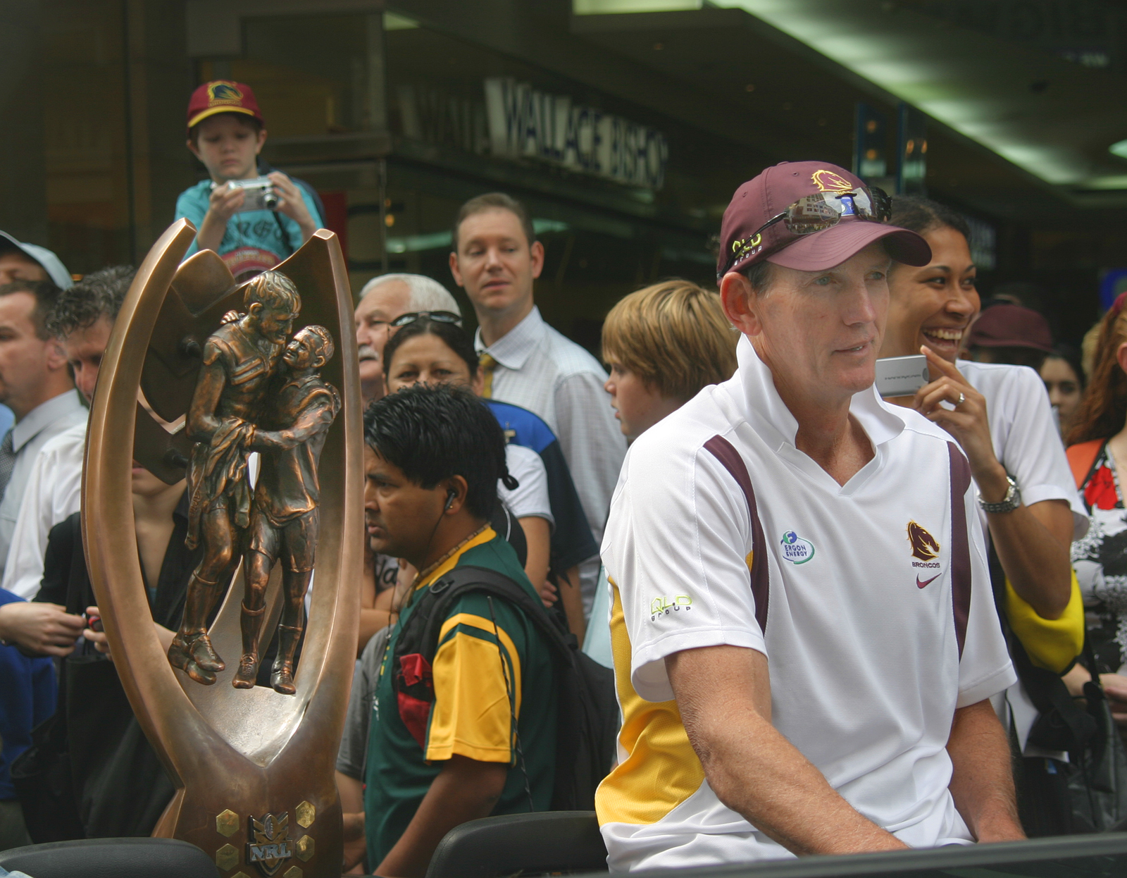 Brisbane Bronco Coach and trophy on parade